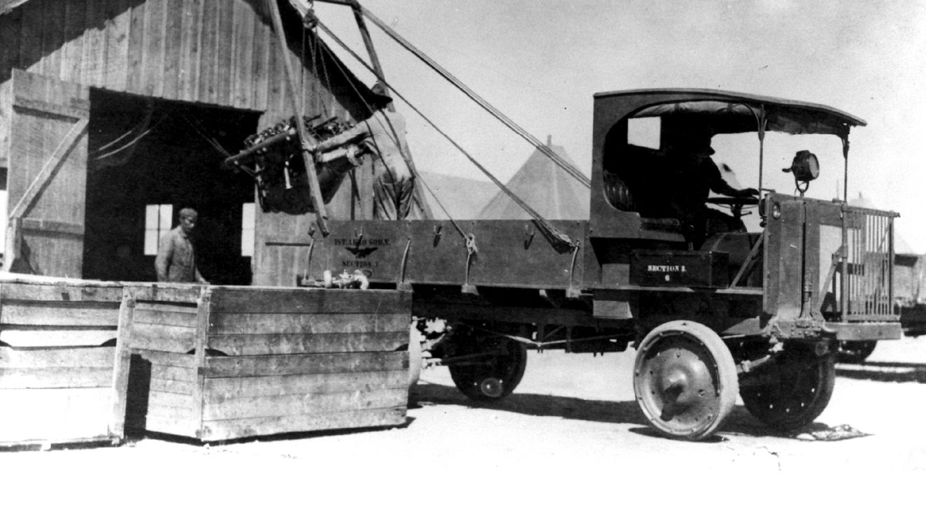 A derrick mounted on the rear of a Jeffery truck turned it into a crane capable of moving an engine to and from the machine shop at Columbus, New Mexico.